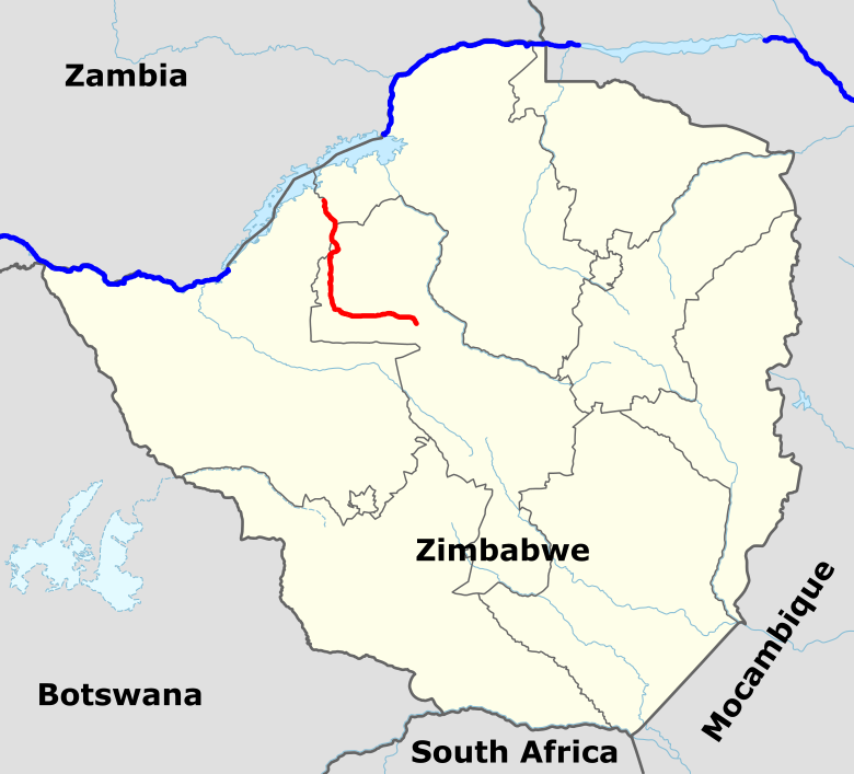 Sengwa River course in Zimbabwe. Zambezi blue, Gwayi red.